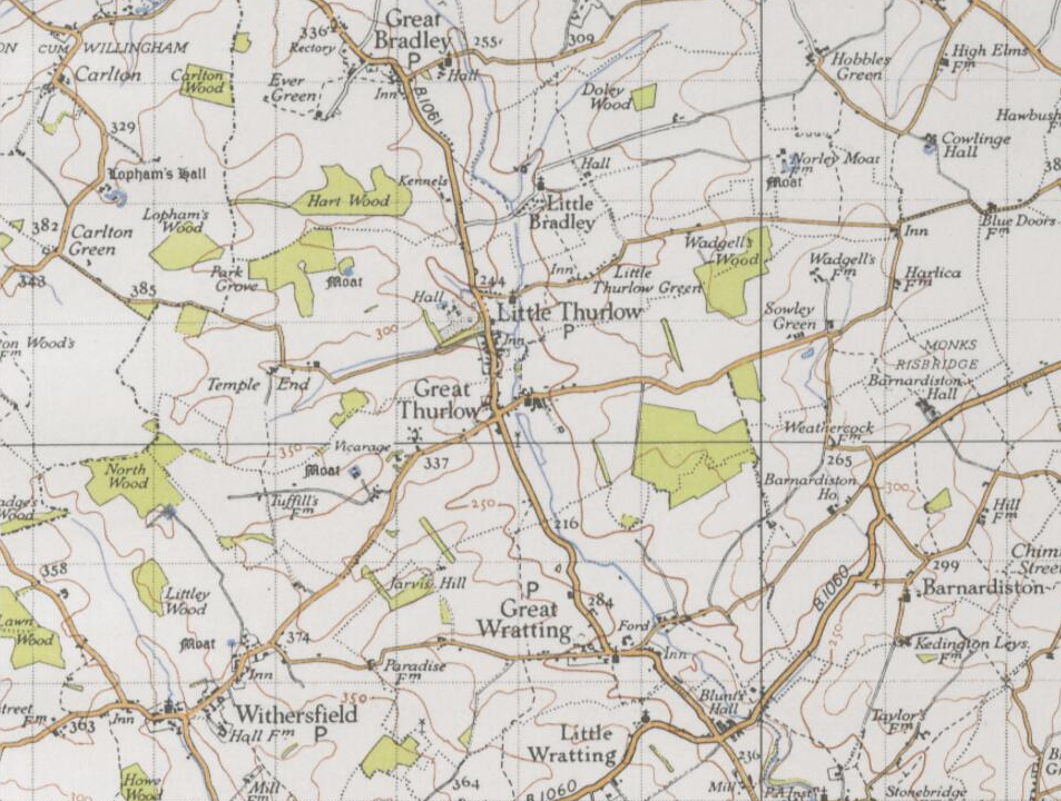 A 20th century map of Great Thurlow and surrounding villages.